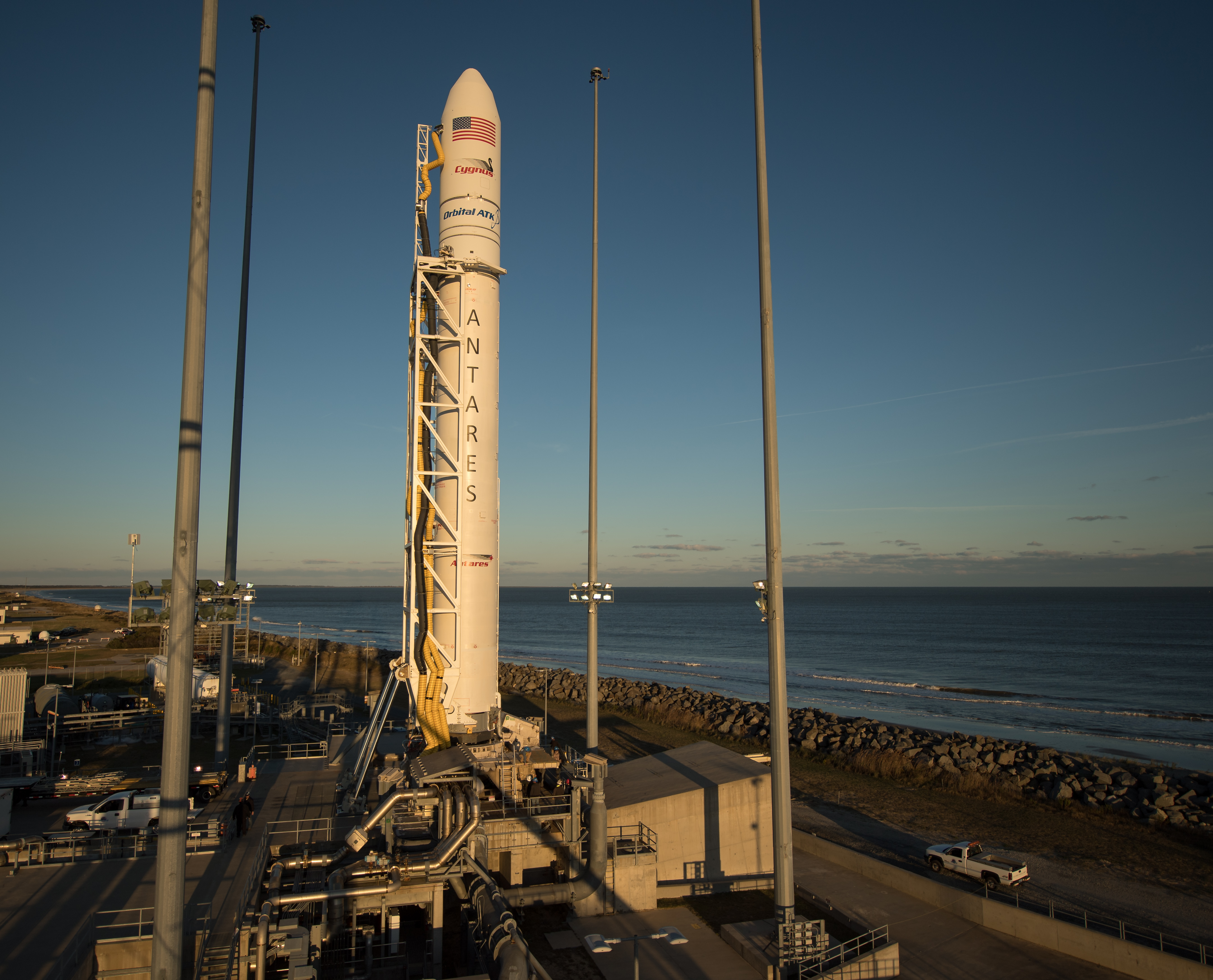 The Orbital ATK Antares rocket, with the Cygnus spacecraft onboard, is seen on launch Pad-0A, Friday, Nov. 10, 2017 at NASA's Wallops Flight Facility in Virginia. Orbital ATK’s eighth contracted cargo resupply mission with NASA to the International Space Station will deliver approximately 7,400 pounds of science and research, crew supplies and vehicle hardware to the orbital laboratory and its crew.